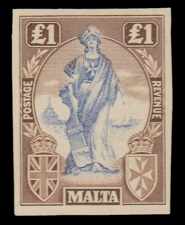 Printer's sample of a Malta 1922 Melita £1 stamp in unissued colours (blue & brown)